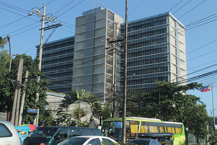 The SSS Building in Quezon City